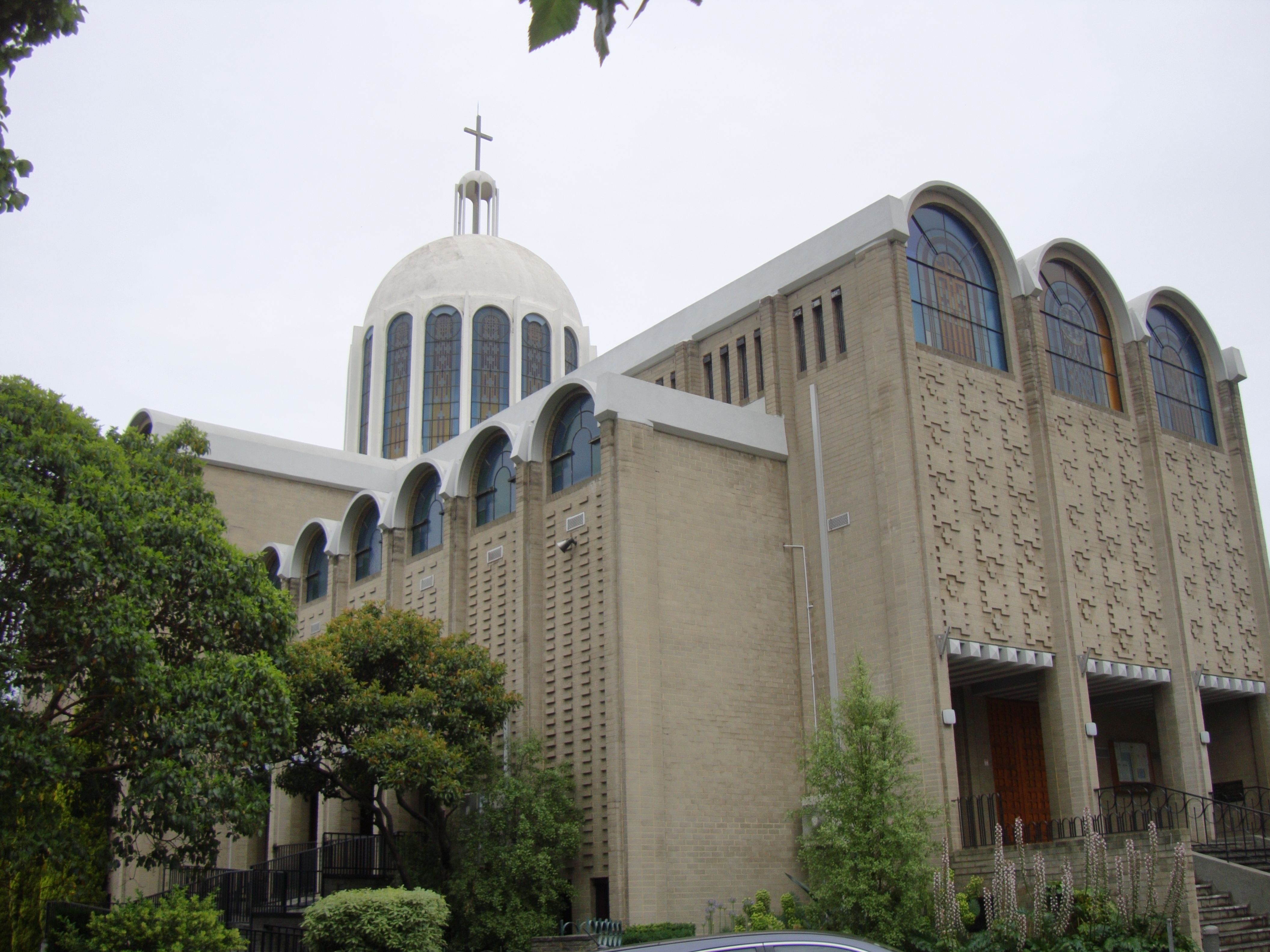 Photograph of SS Peter & Paul Ukrainian Catholic Cathedral, Melbourne, Victoria, Australia